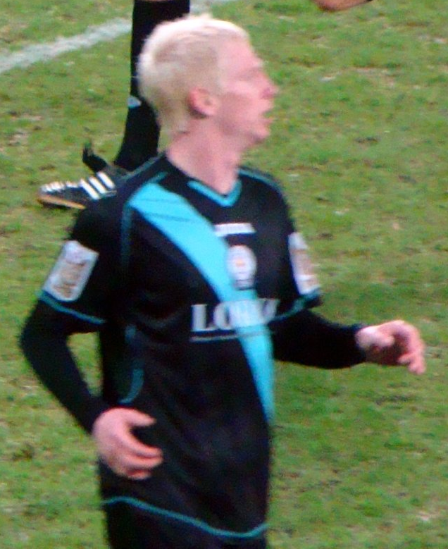 Ryan McGivern at Cardiff V Leicester, FA Cup 4th Rd, Cardiff City Stadium, Cardiff, Wales